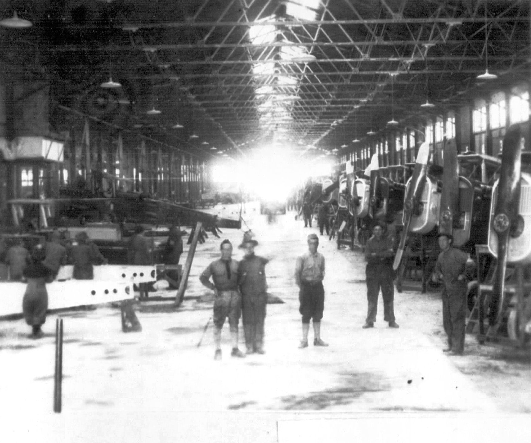 Romorantin Aerodrome - Building 1-A DH-4 Assembly